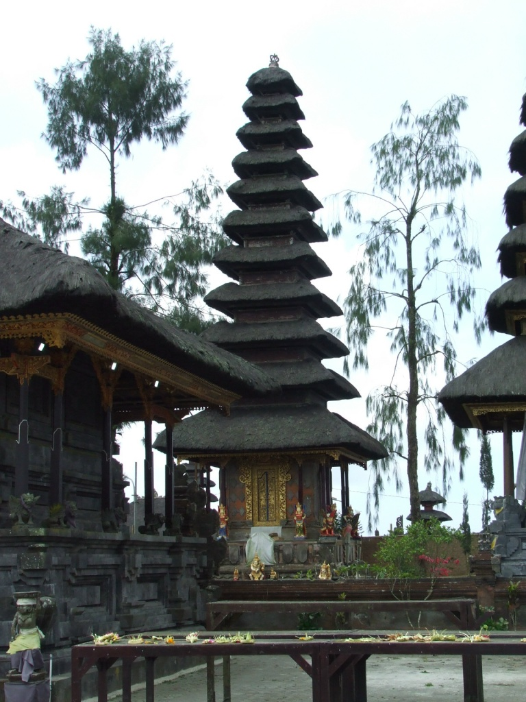 Meru Tumpang at Pura Ulun Danu Batur in the northern court. Its the most important and most holy shrine inside this temple compund.